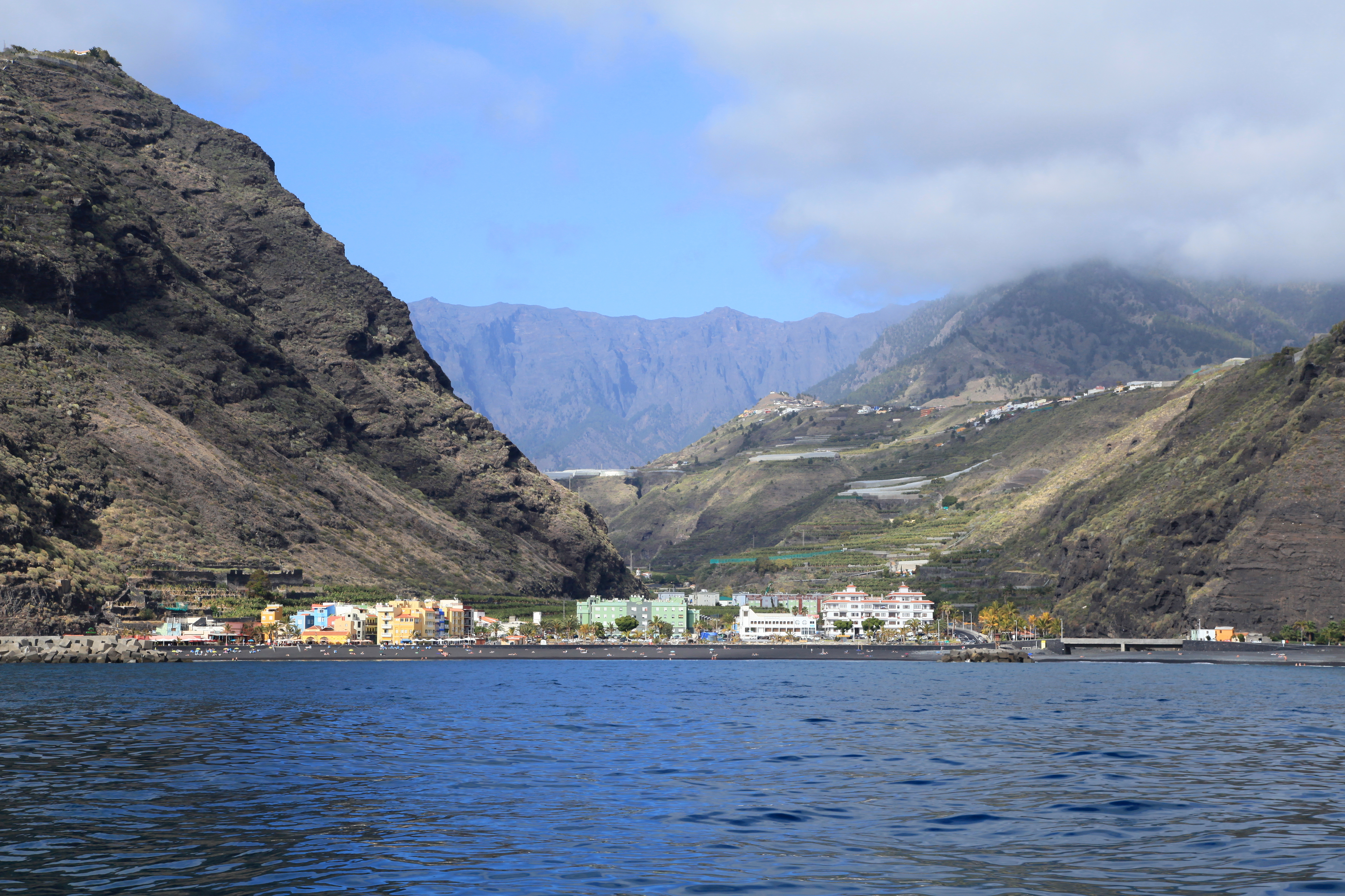 View from ship Fancy II to El Puerto, Tazacorte, La Palma, Canary Island, Spain